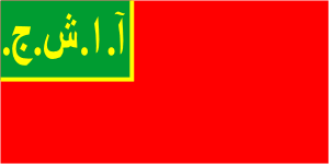 Flag of Azerbaijan SSR untill December 1922